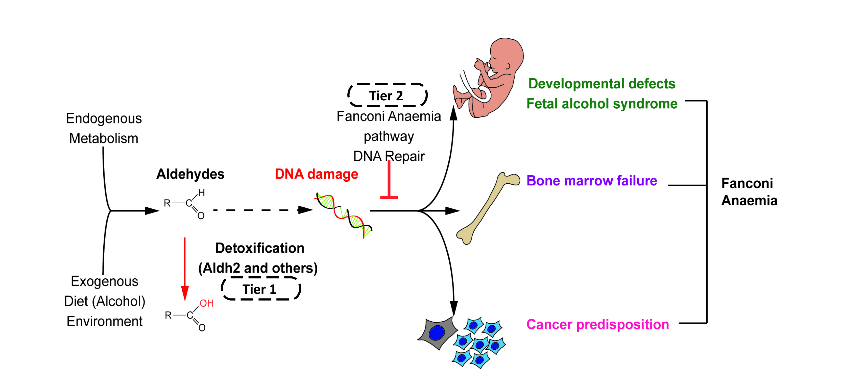 Both endogenous metabolism and exogenous sources (such as alcohol consumption) can yield reactive aldehydes within the body that can ultimately damage our DNA. Their potential toxicity is encountered by two serial protection barriers, also referred to as two-tier protection. The first tier comprises the enzymatic detoxification of these molecules, such as oxidation of acetaldehyde catalyzed by the ALDH2 protein. The second tier is specific DNA damage repair and takes action when aldehyde-induced DNA damage has already occured. In the human disease Fanconi anemia, an inherited deficiency of DNA interstrand crosslink repair means a failure of second-tier protection and promotes genomic instability, eventually leading to developmental defects, bone marrow failure and an increased risk for cancer.